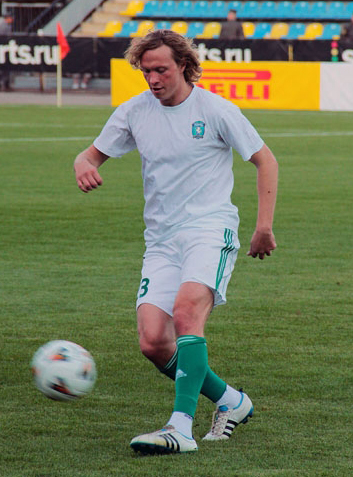 Yevgeni Balyaikin with FC Tom Tomsk